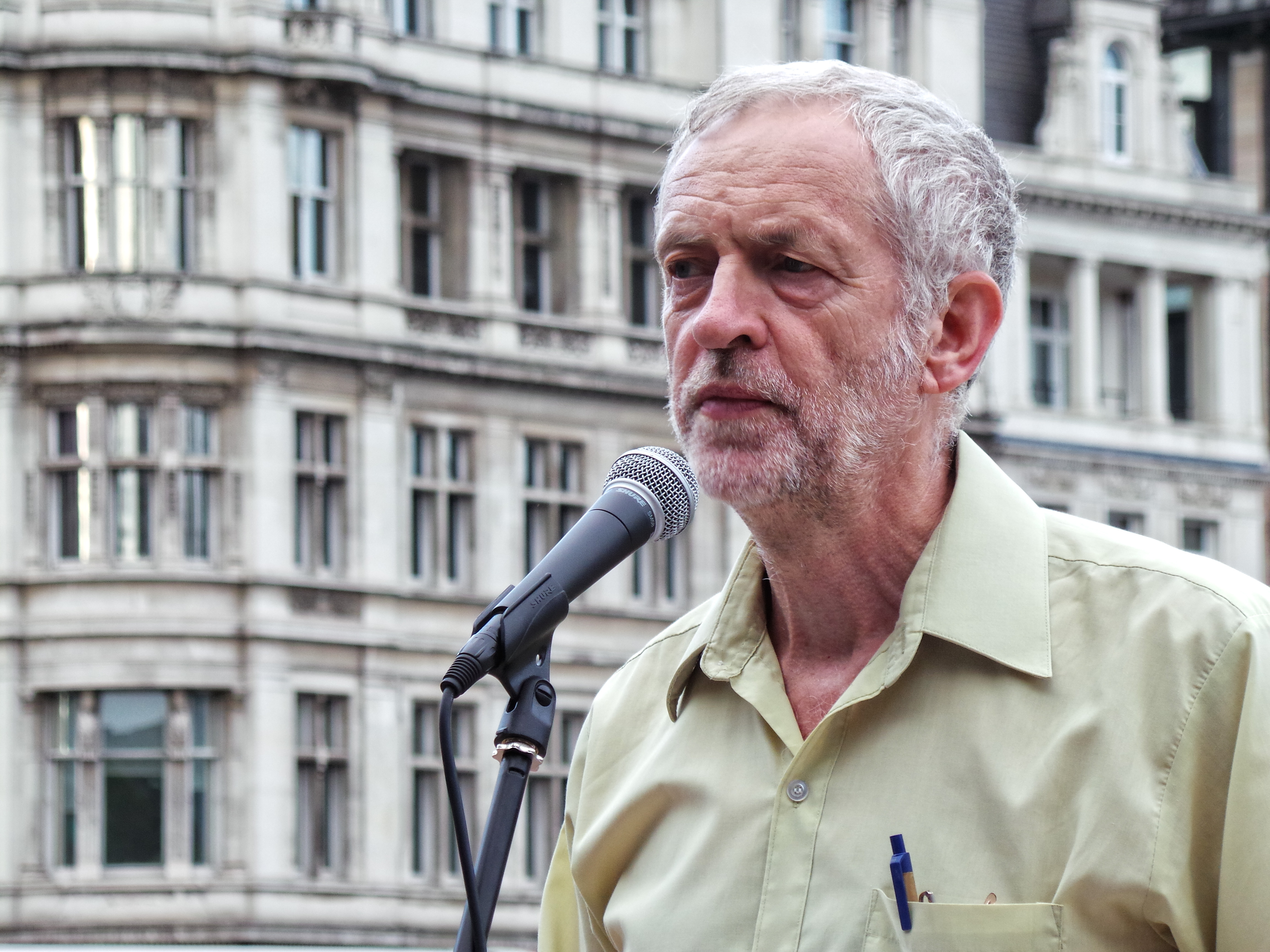 Jeremy Corbyn at the No More War event at Parliament Square in August. A Creative Commons stock photo.